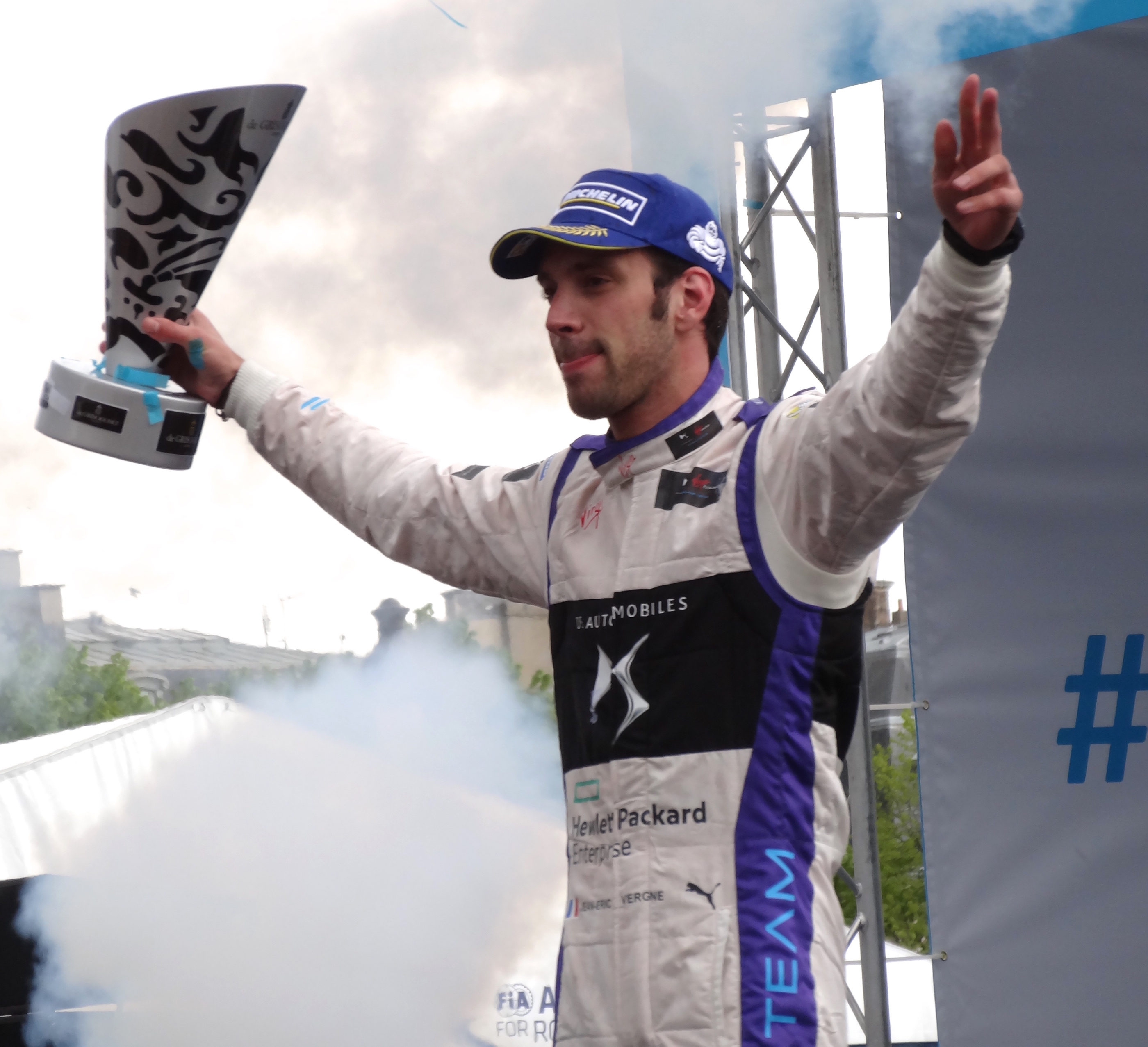 Jean-Eric Vergne EGP Paris 2016